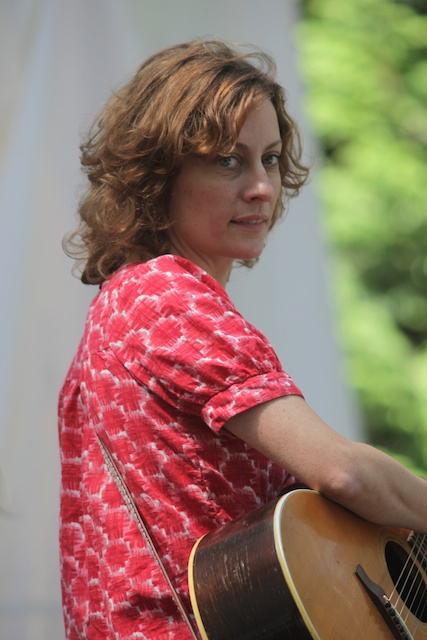 Sarah Harmer at the 2010 Vancouver International Folk Music Festival